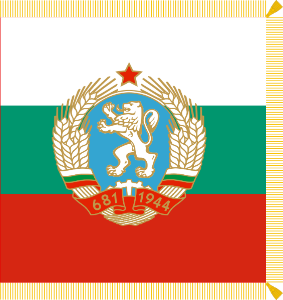 Standard of the chairman of the State Council (head of state) of the People's Republic of Bulgaria (1971-1990)